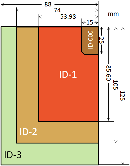 Examples of ISO/IEC 7810